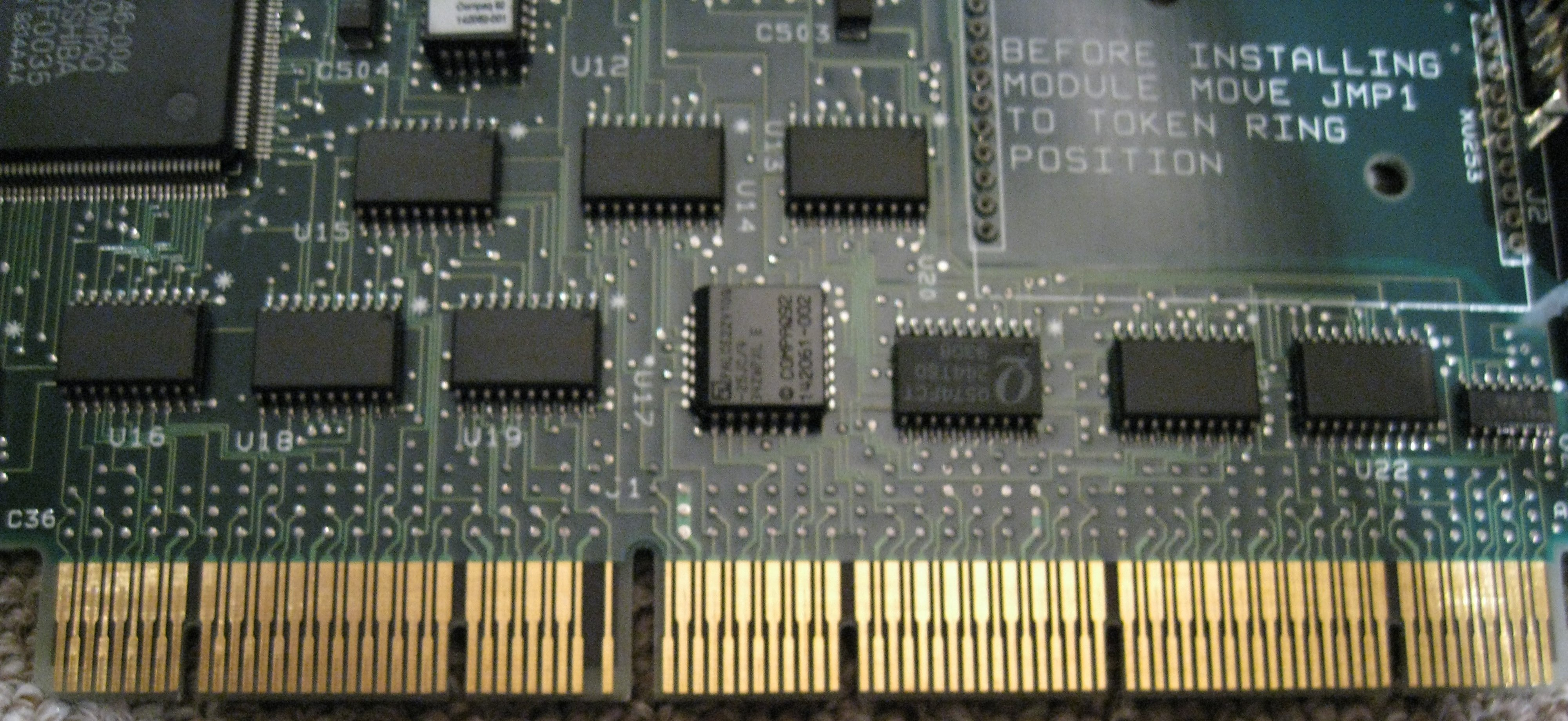 EISA-Card